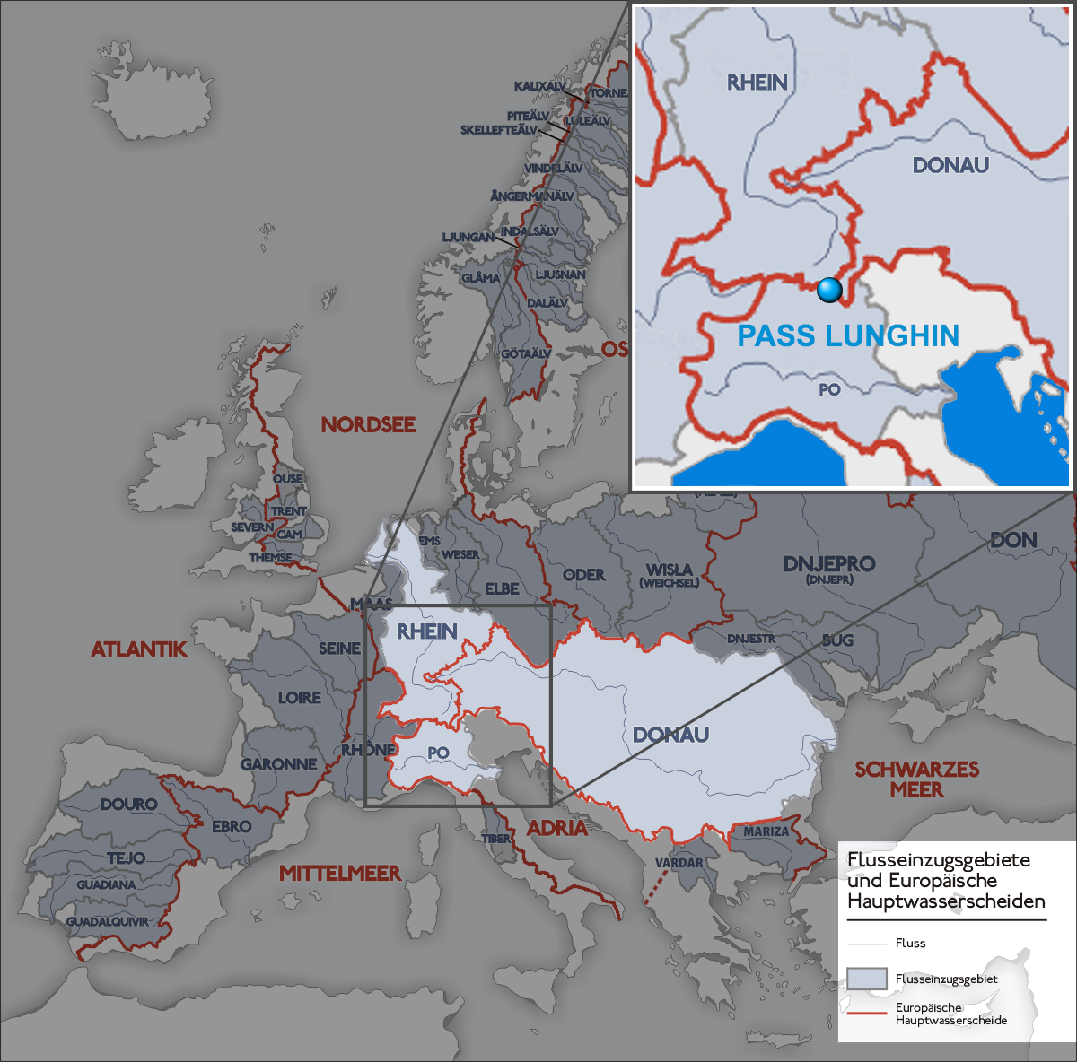 The map shows the European rivers' catchment areas and main watersheds. The zoomed area shows the location of Pass Lunghin.